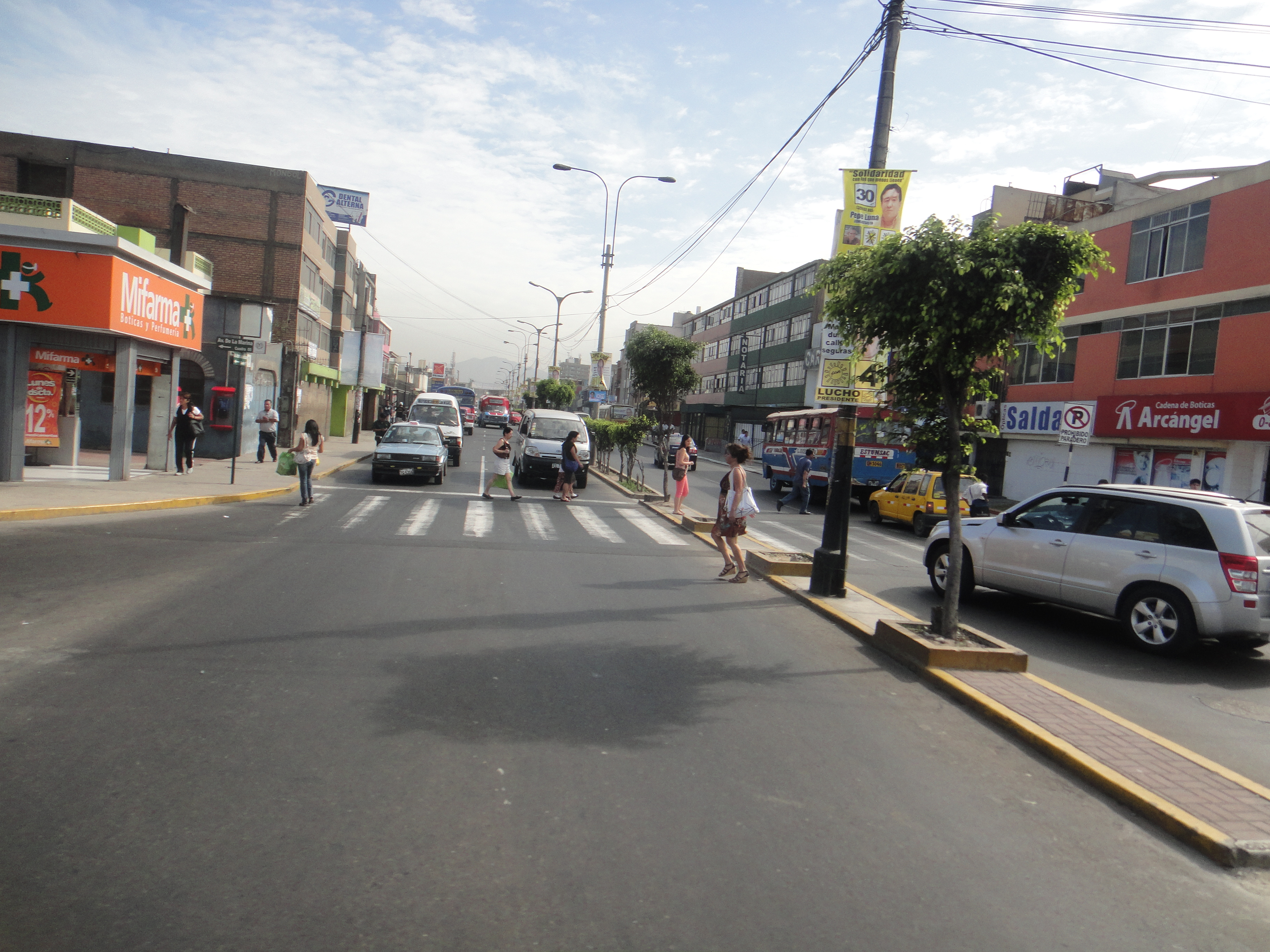 Sucre Ave. of Pueblo Libre District in Lima, Peru.